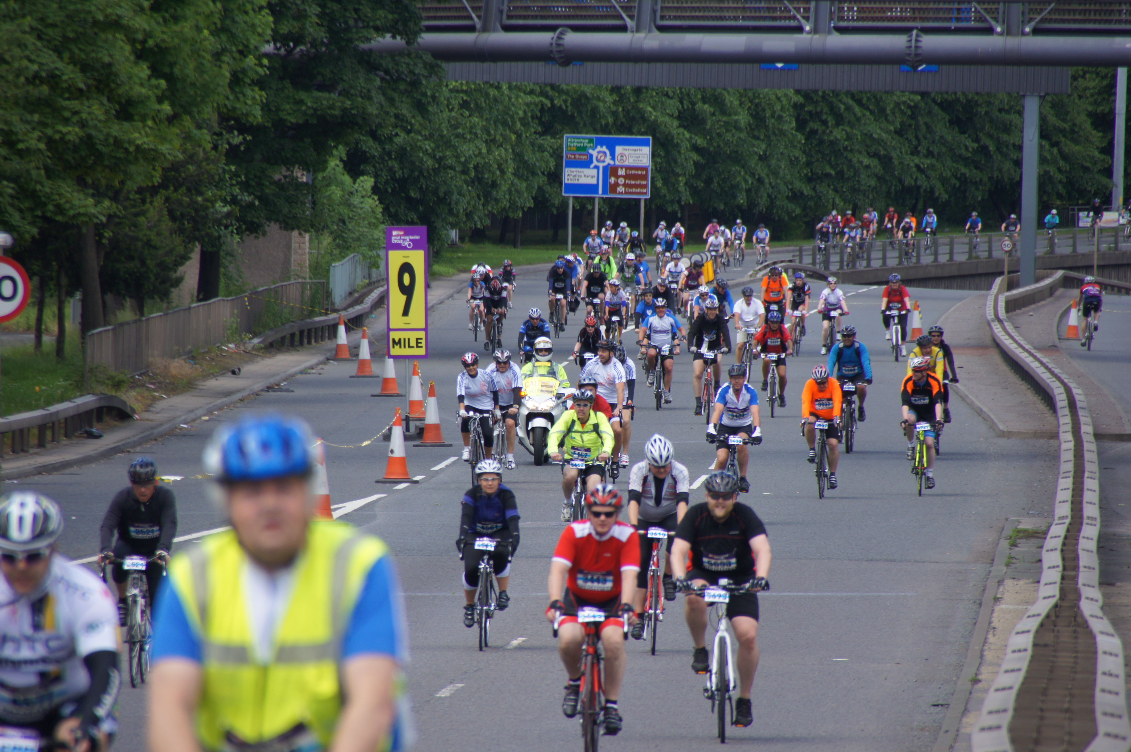 Many cyclist pass the nine mile marker